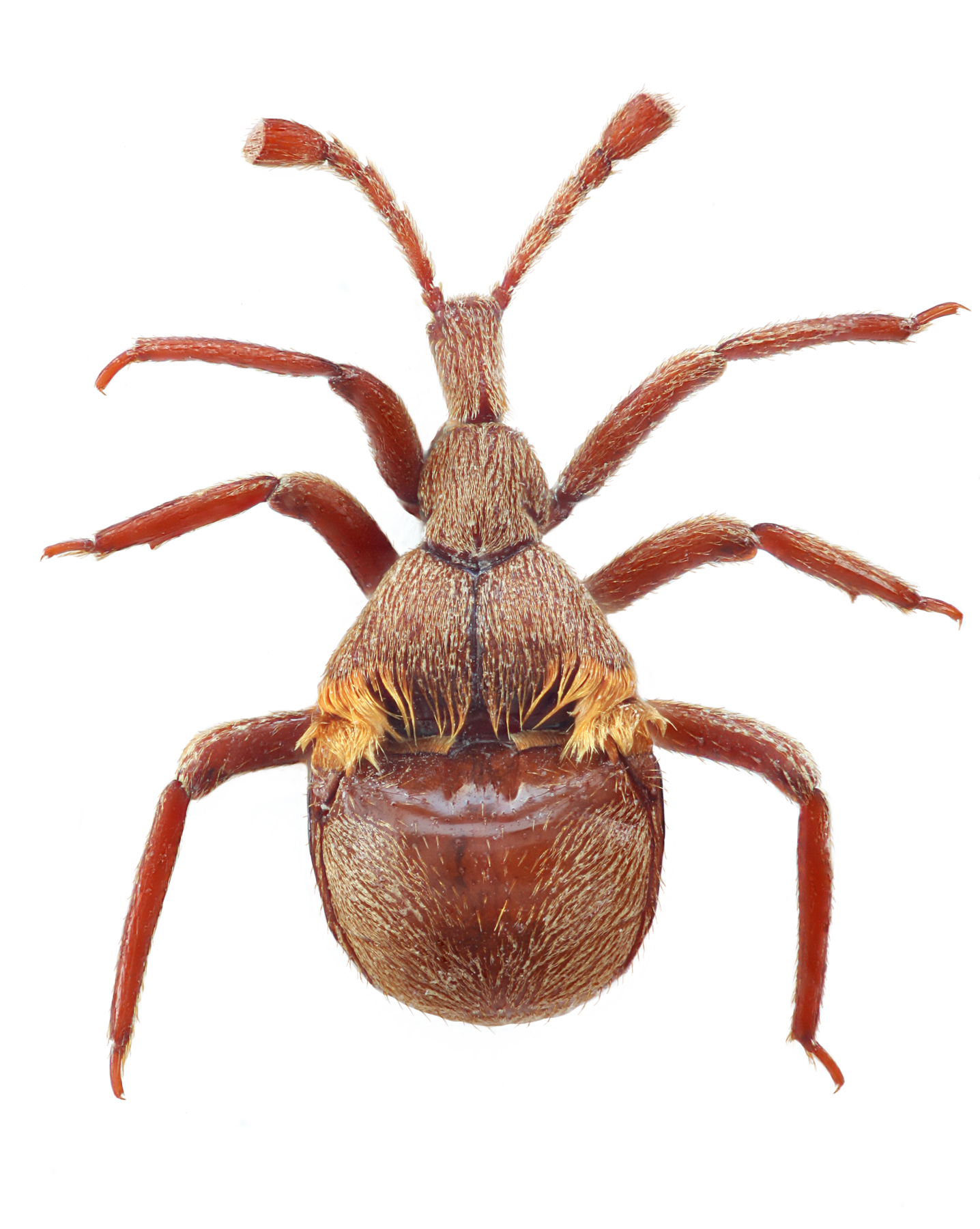 Claviger longicornis